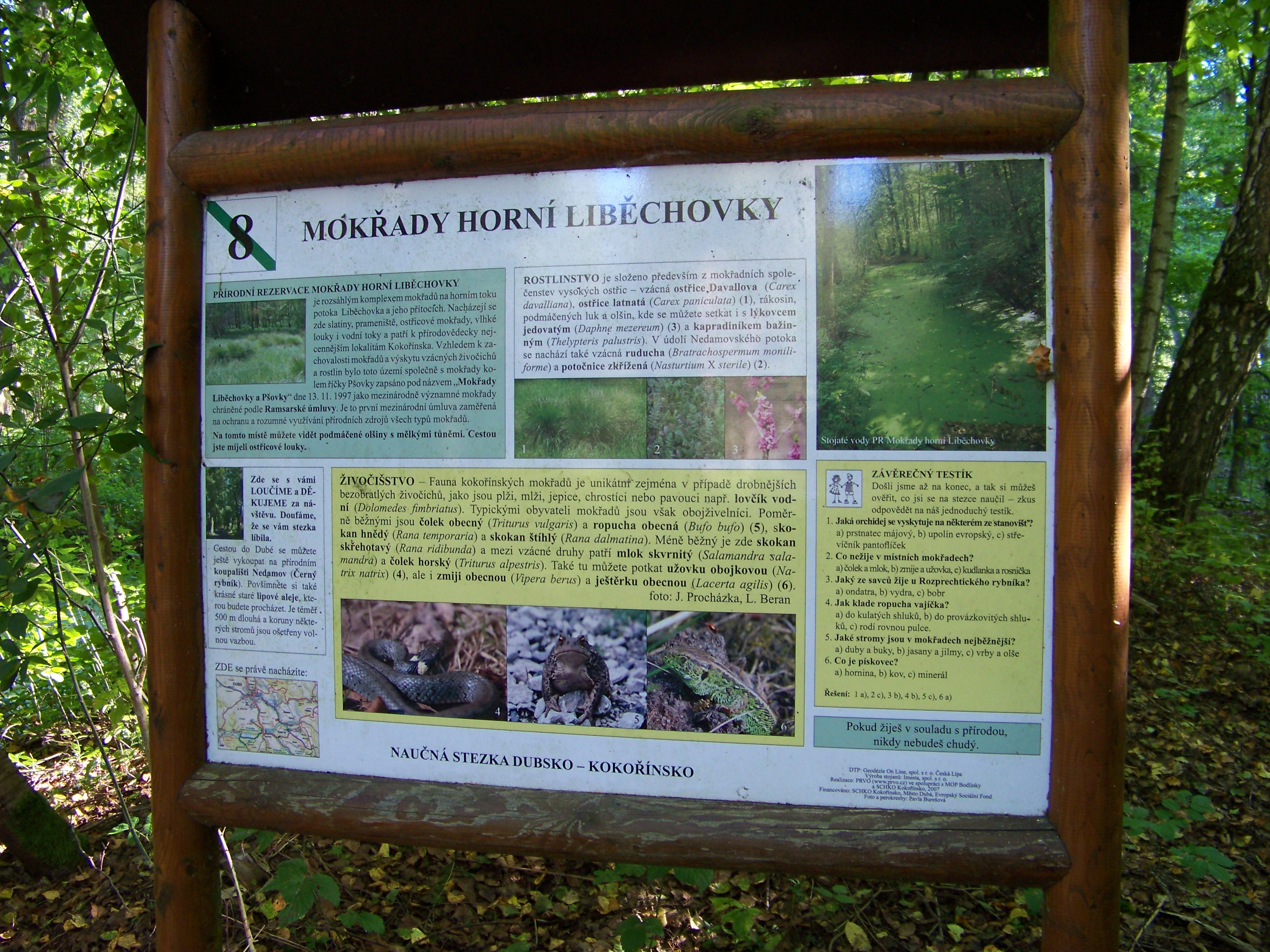 Dubá, Česká Lípa District, Liberec Region, Czech Republic. A board of the educational trail at wetland of Liběchovka along the road III/27325. - OpenStreetMap (Info)